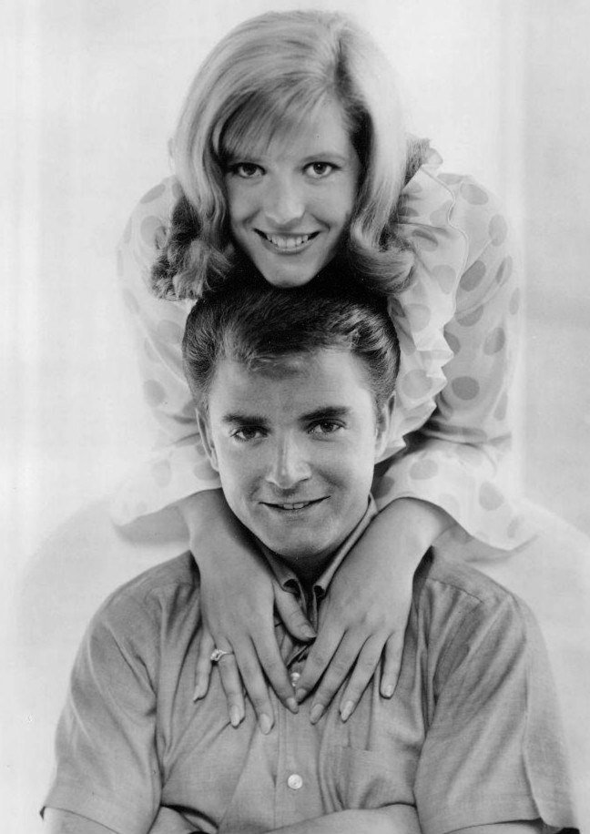 Photo of Meredith MacRae as Sally and Tim Considine as Mike from the television program My Three Sons.